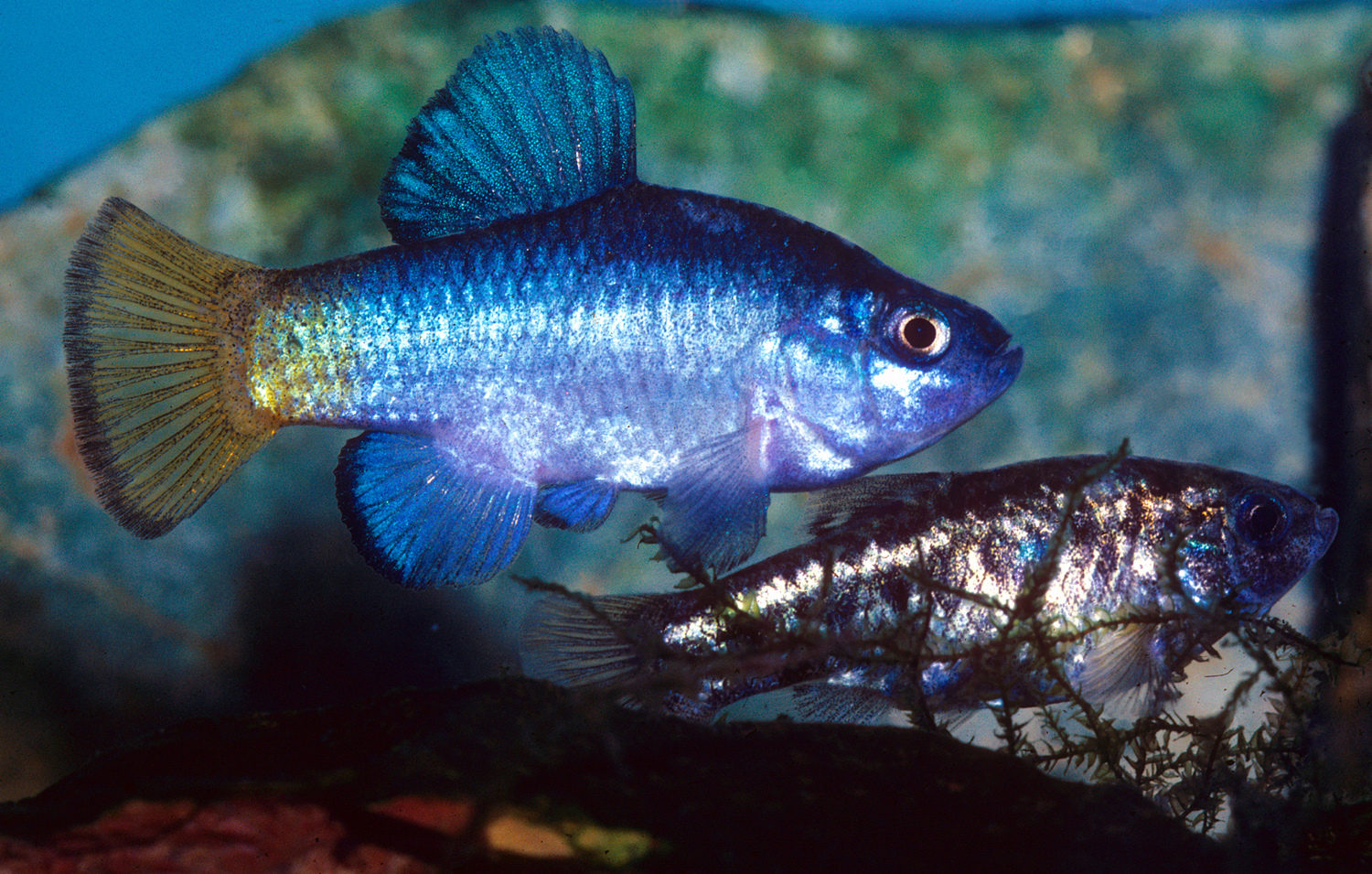 Cyprinodon macularius pair approach to spawning site